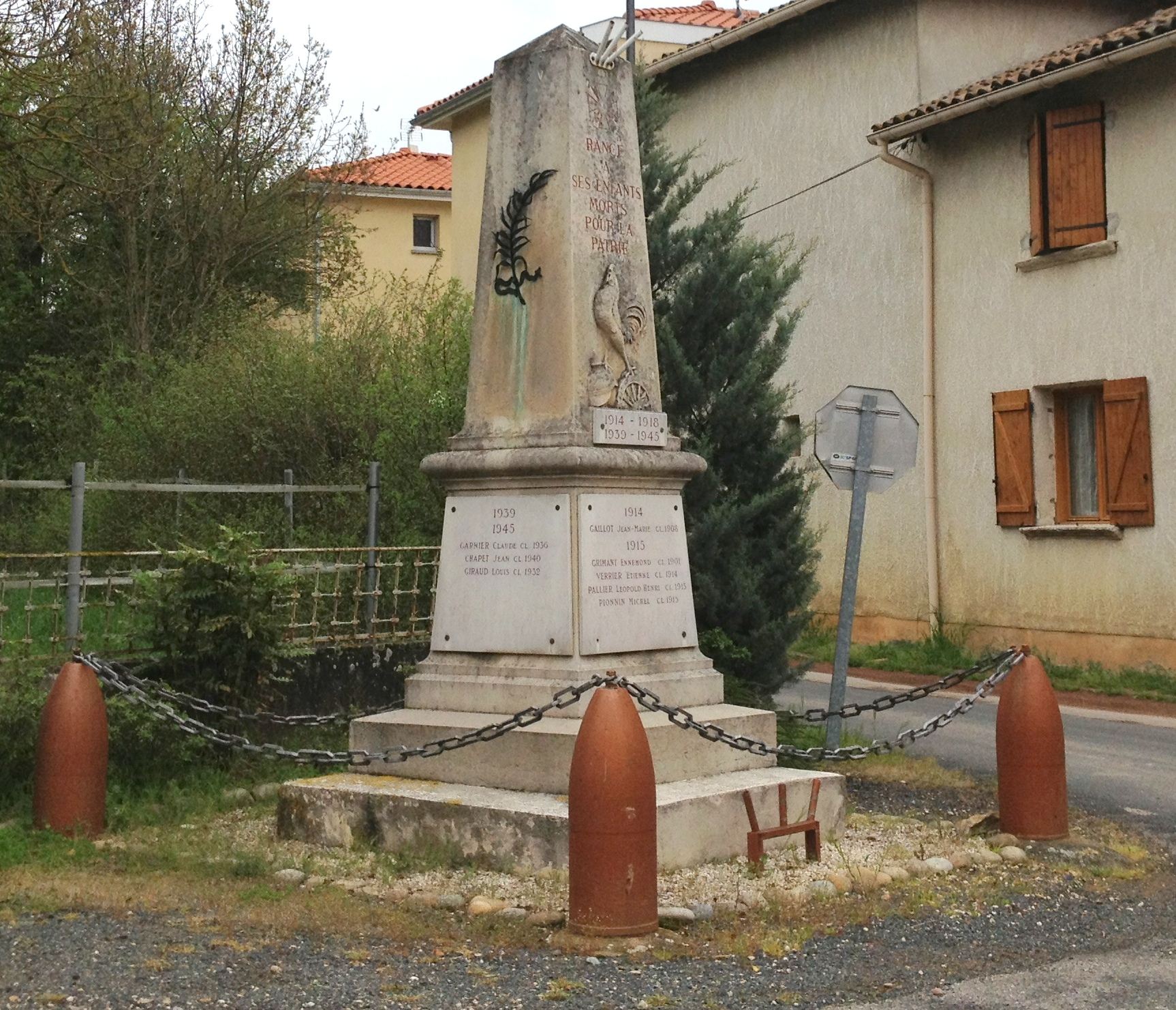 War memorial of Rancé (Ain).